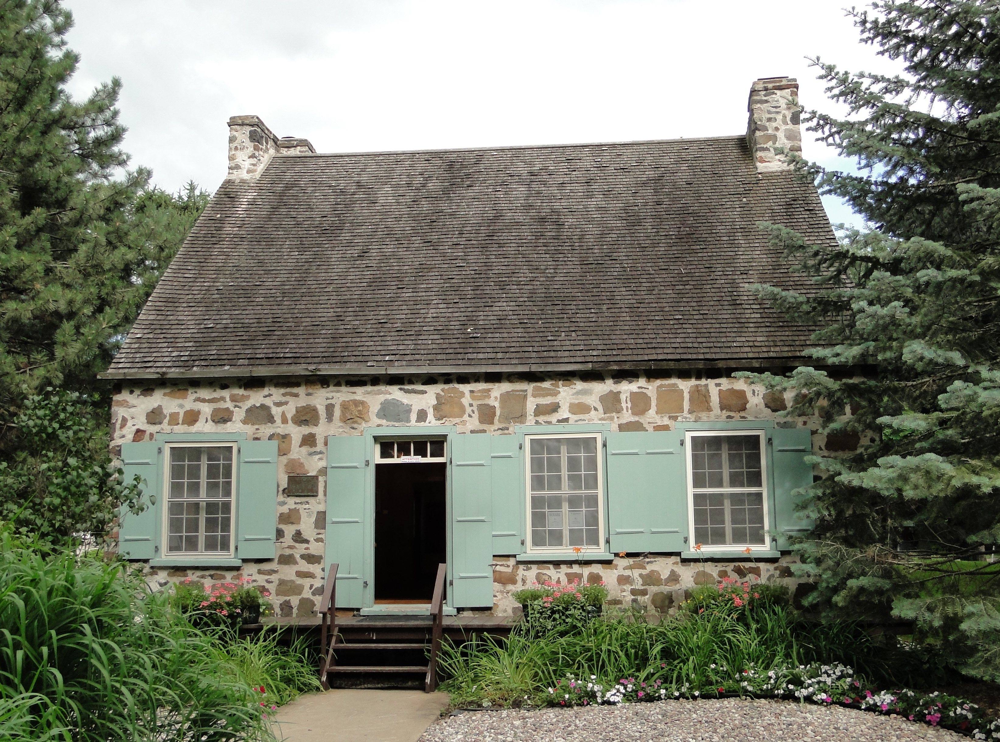 Lafontaine House (1766) where Louis-Hippolyte Lafontaine lived in his childhood, De La Broquerie park, Boucherville, province of Quebec, Canada.